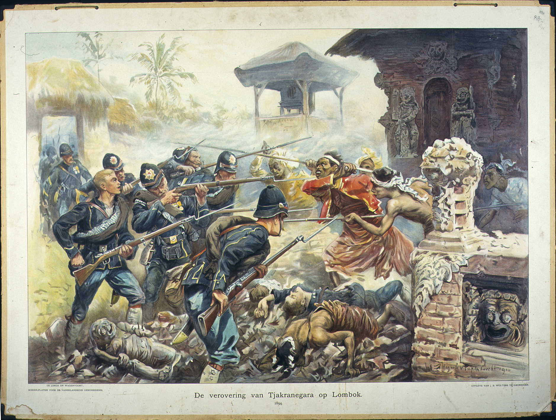 The victory at Tjakranegara on Lombok